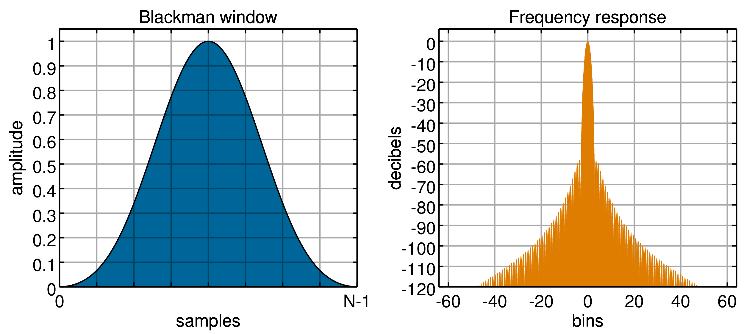 Blackman window and frequency response